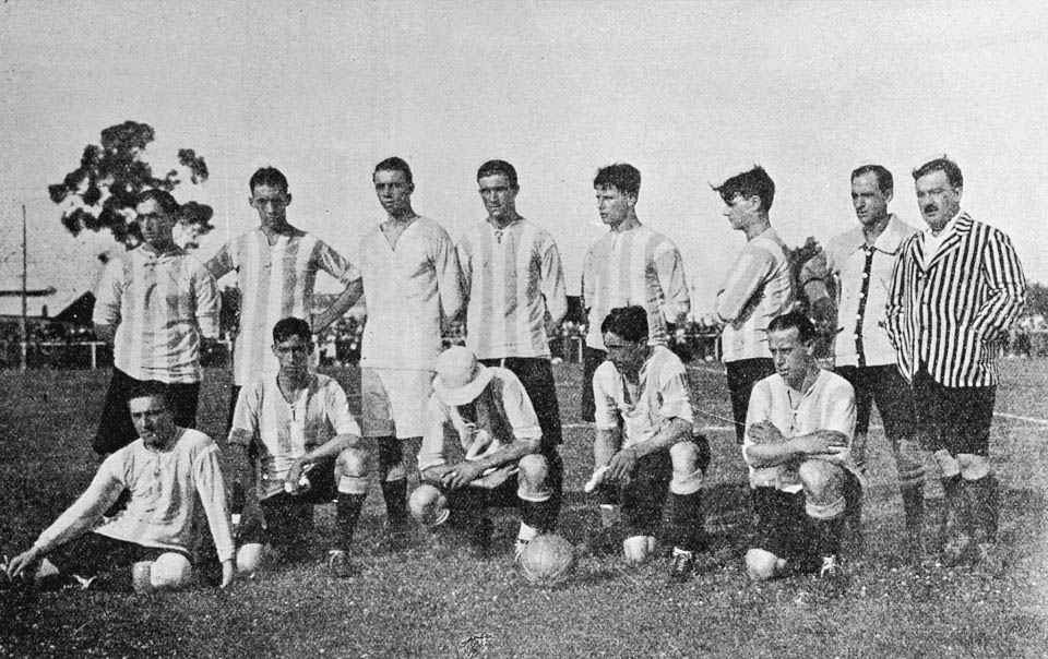 Racing Club of Argentina team that won its 3rd. championship in 1915. Players are: Salvador Presta, Ángel Betular, Syla Arduino, Francisco Olazar, Armando Reyes, Ricardo Pepe; (down): Alberto Marcovecchio, Zoilo Canaveri, Alberto Ohaco (covering his face with a hat), Juan Hospital, Juan Perinetti.